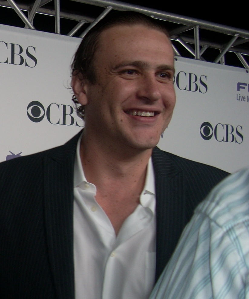 CBS Comedies Premiere Party Sponsored by Flo TV, Area on La Cienega, Los Angeles - Sept. 17, 2008